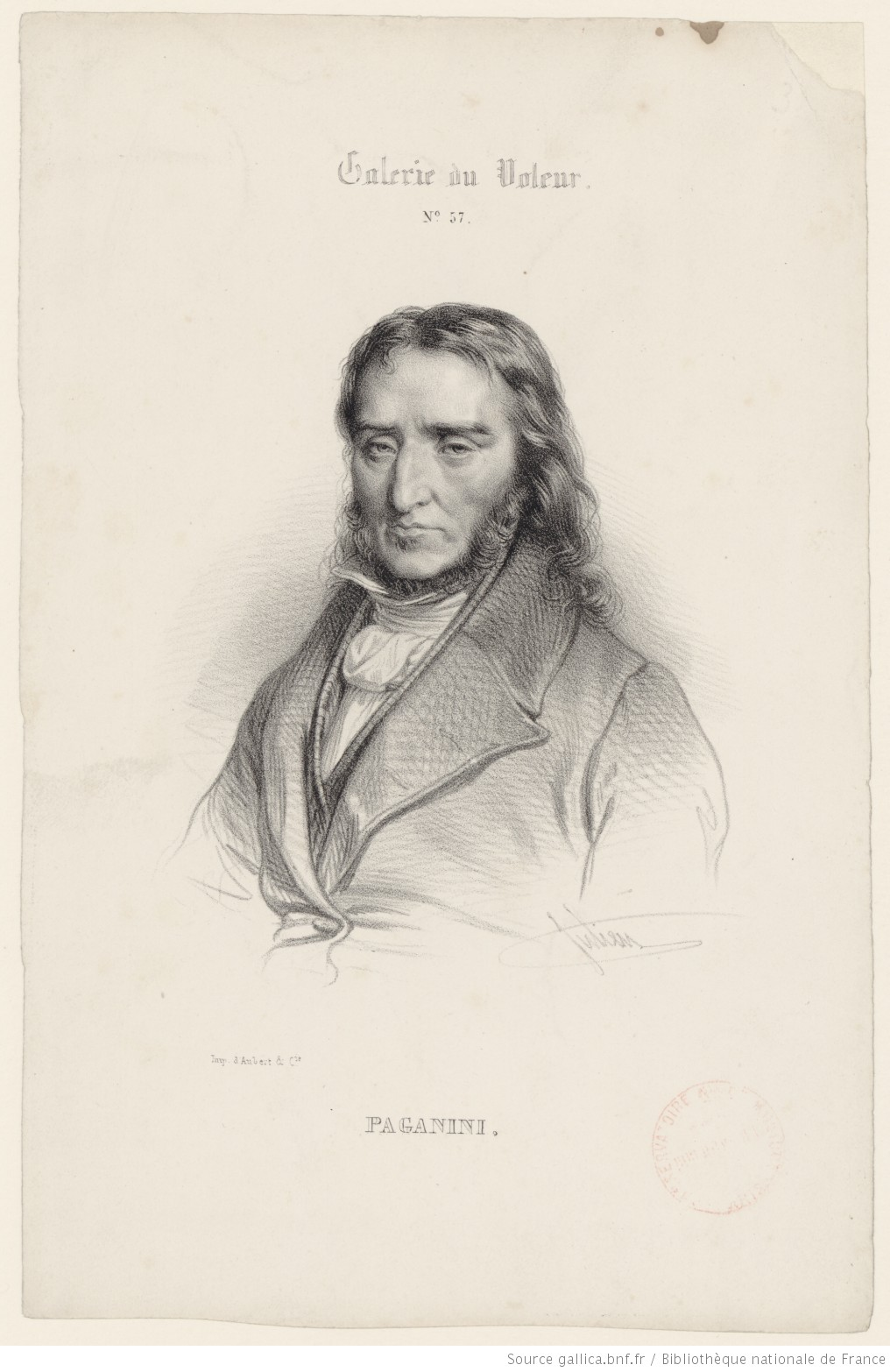 Portrait